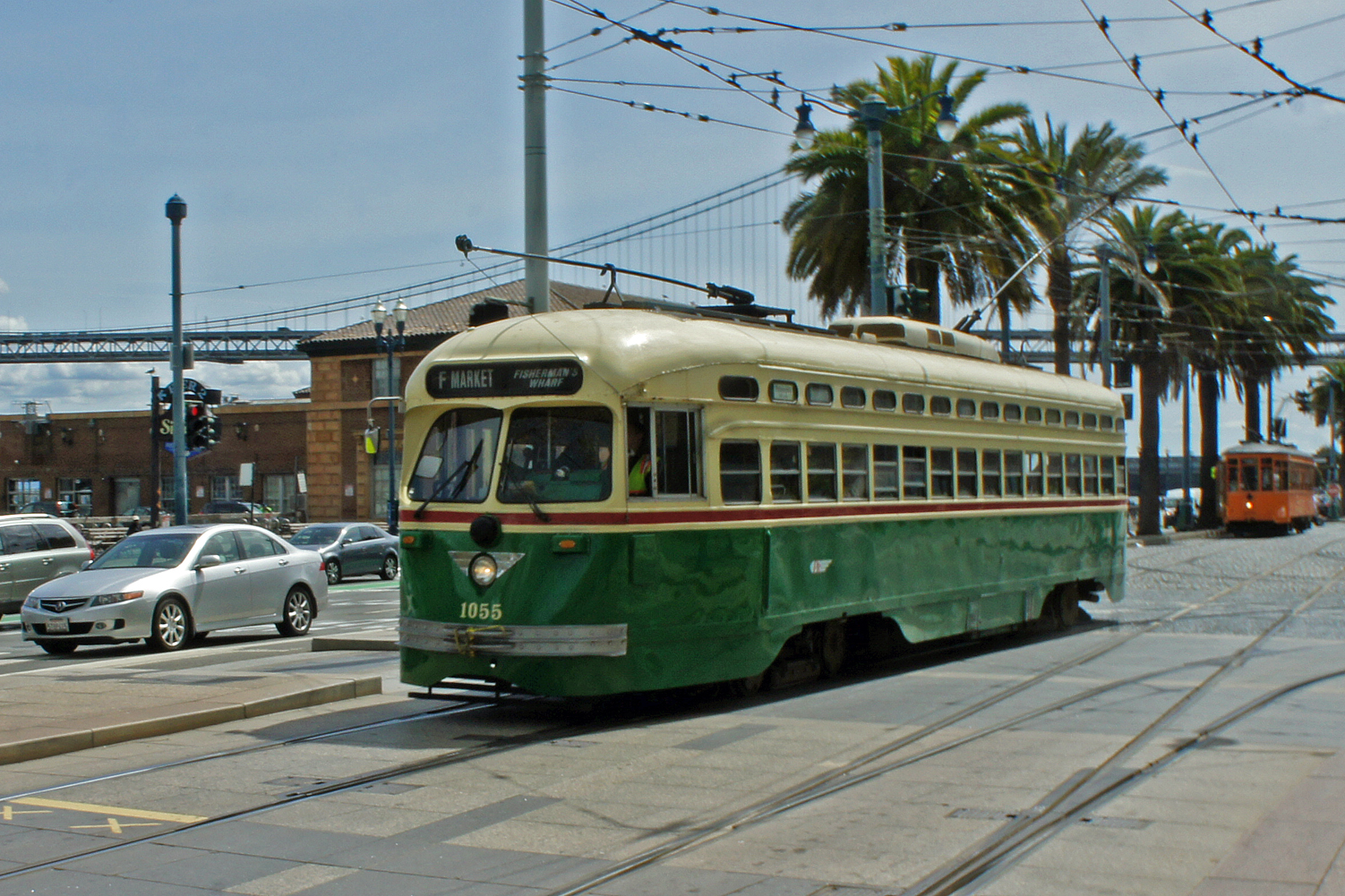 Heritage streetcar F Market Line, The Embarcadero, San Francisco